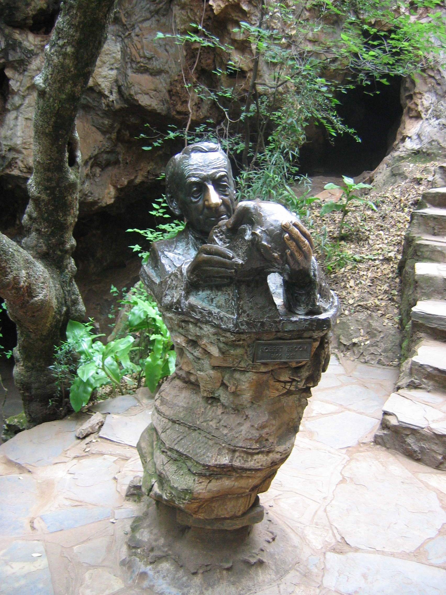 Bust of Robert Broom with skull of Mrs Ples at Sterkfontein Caves.